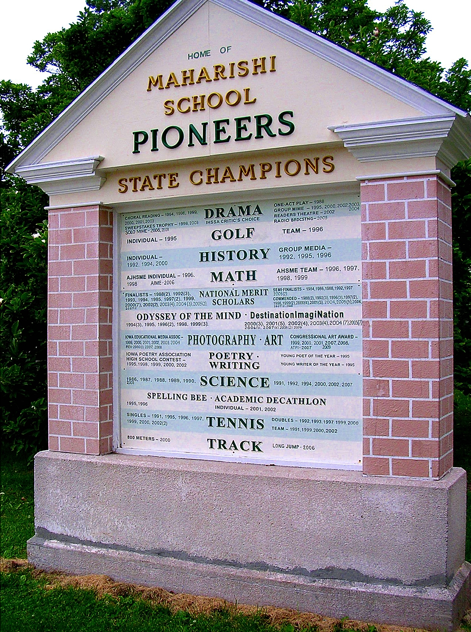 Sign at Maharishi School of the Age of Enlightenment, Fairfield Iowa. Photo taken by Wiki user Keithbob.